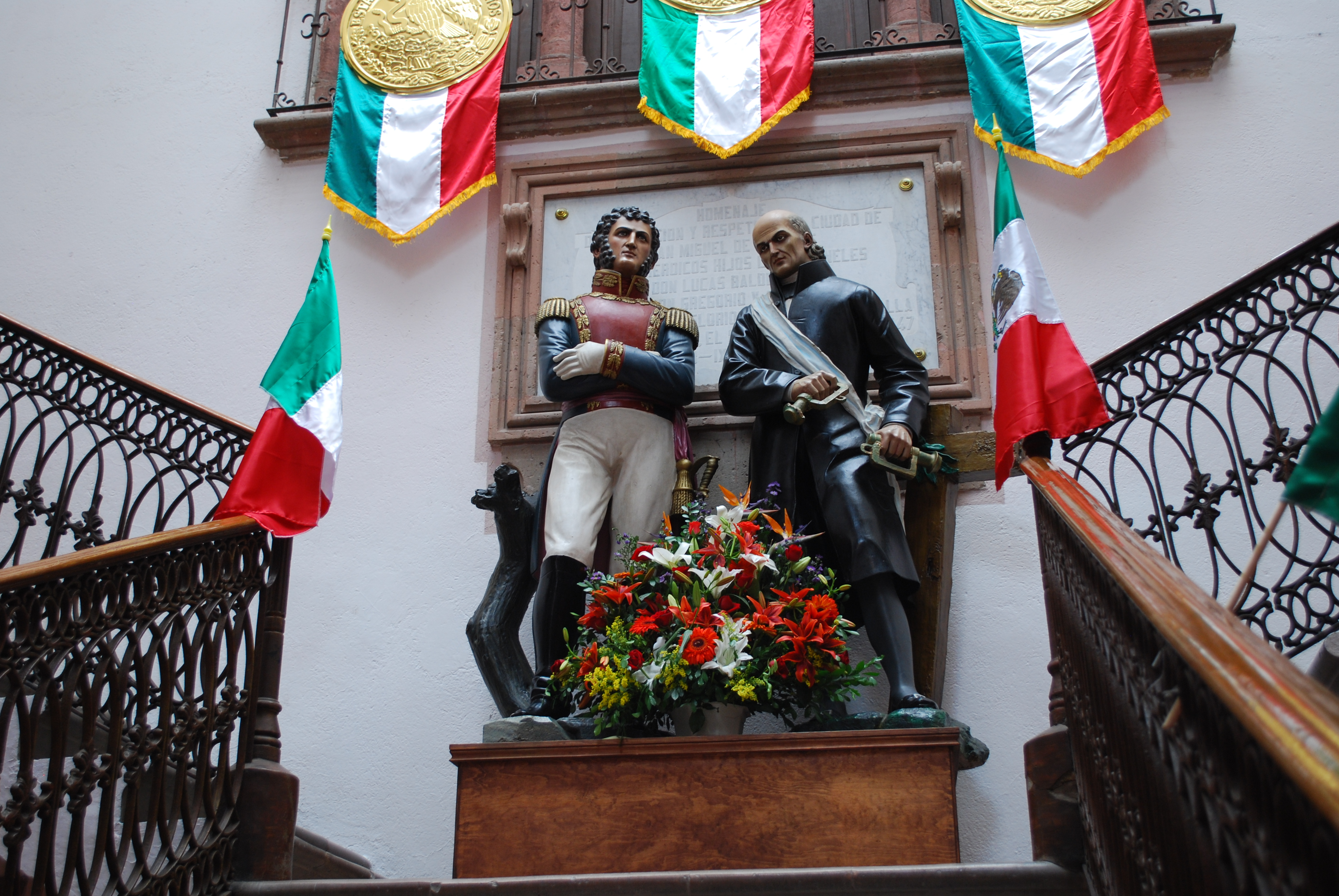 Images of Ignacio Allende and Miguel Hidalgo in the municipal palace of San Miguel Allende, Guanajuato, Mexico